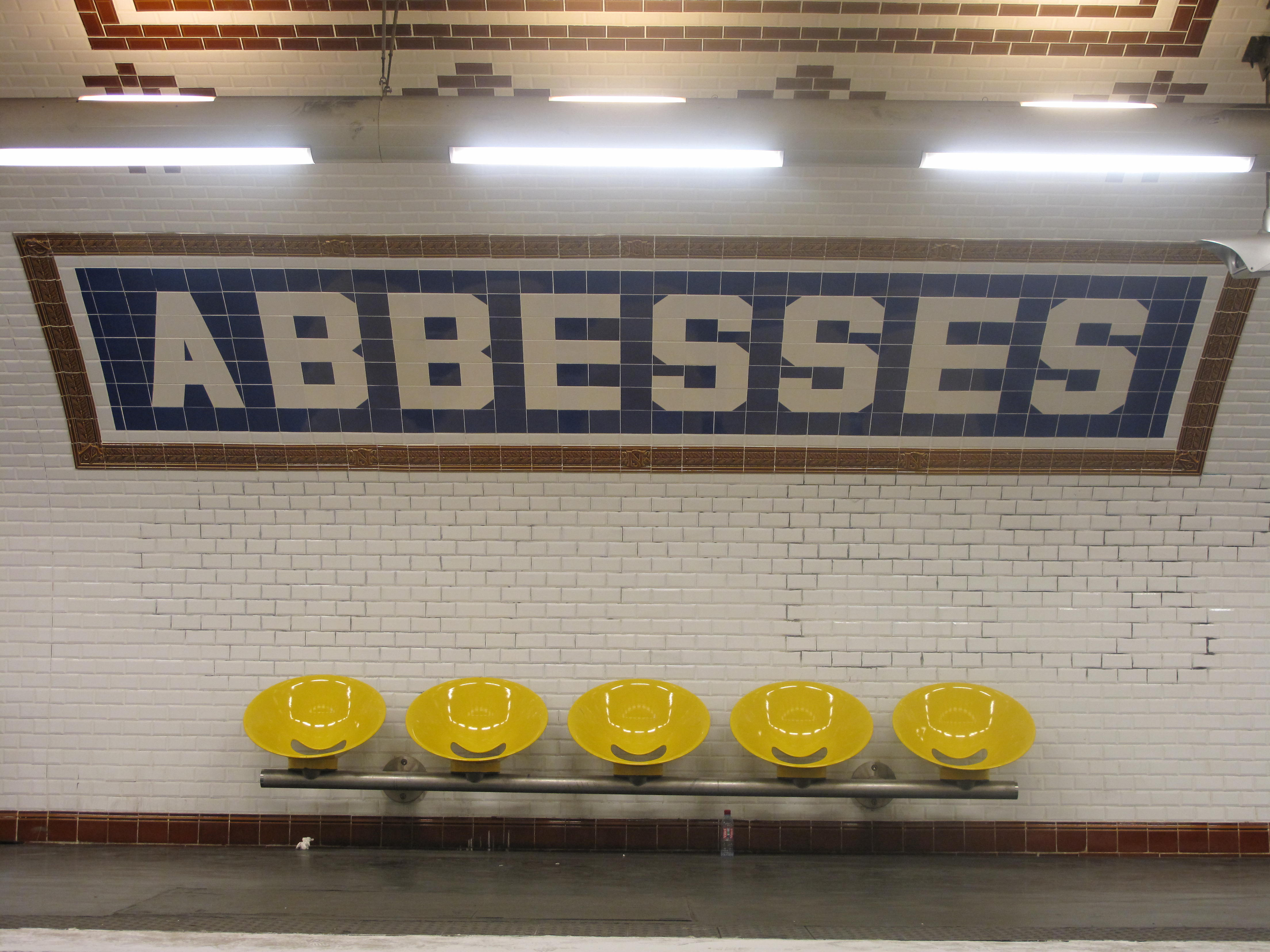 Name of the station "Abbesses" on the platform of the station. Paris : 18th arr. All along the brown frame, we found the monogram "NS" of the former metro company "Nord-Sud" (=North-South)